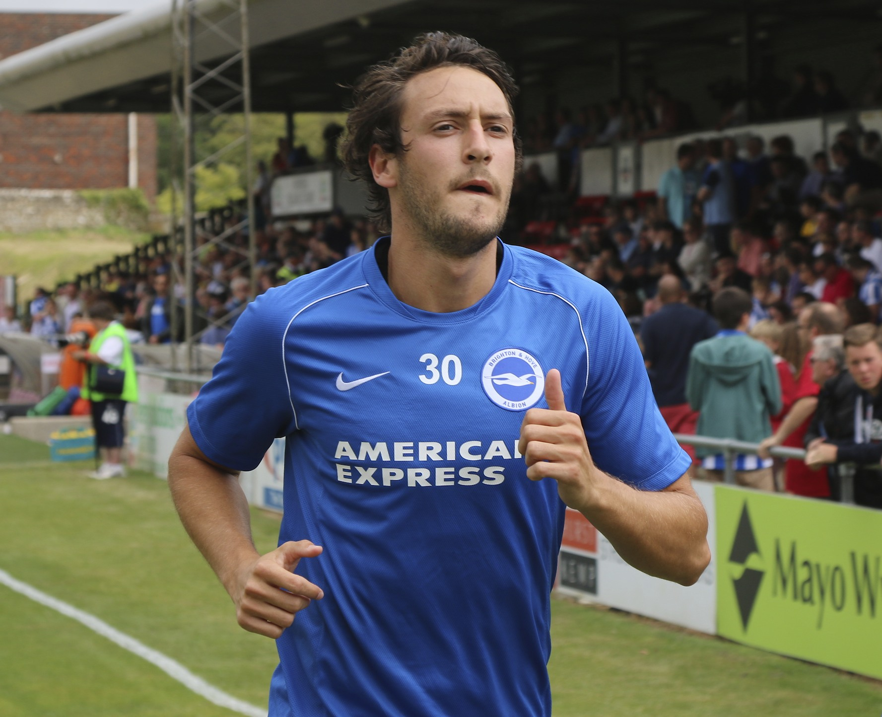 Lewes v BHA pre season July 5th 2014 174